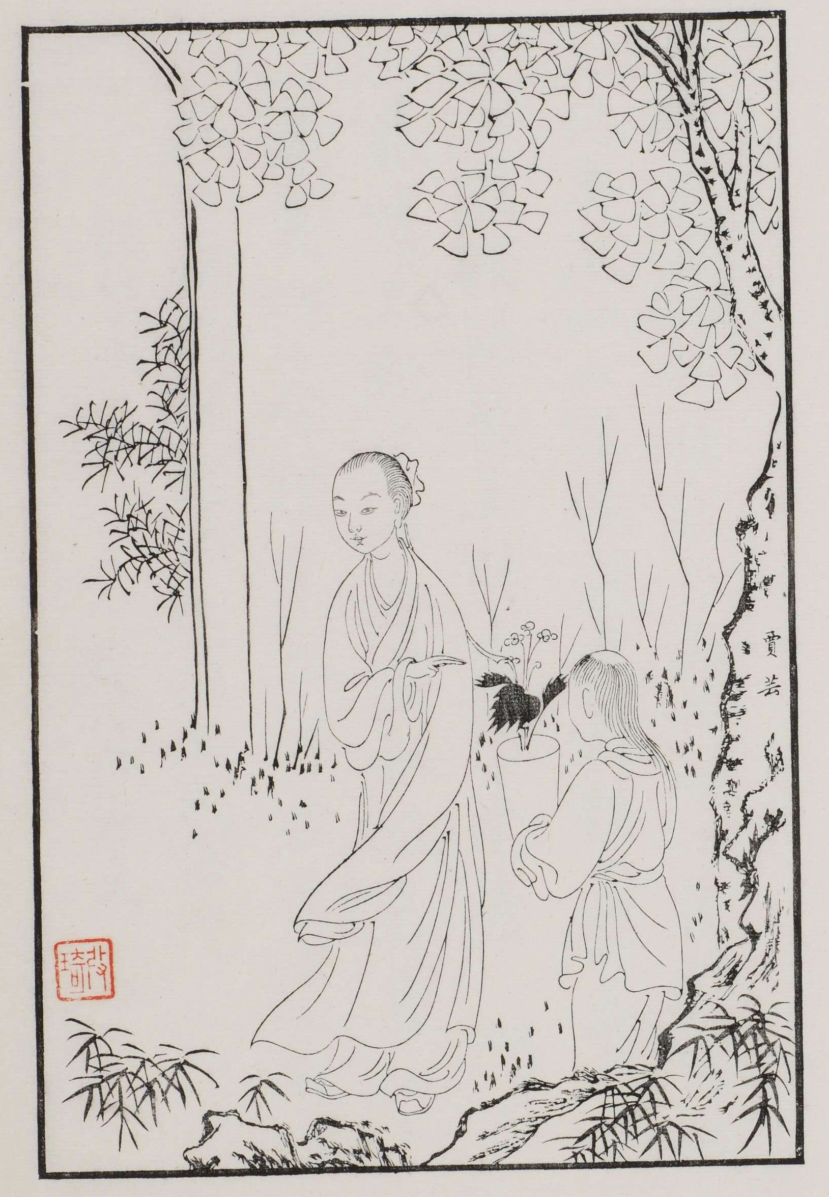 Jiǎ Yún